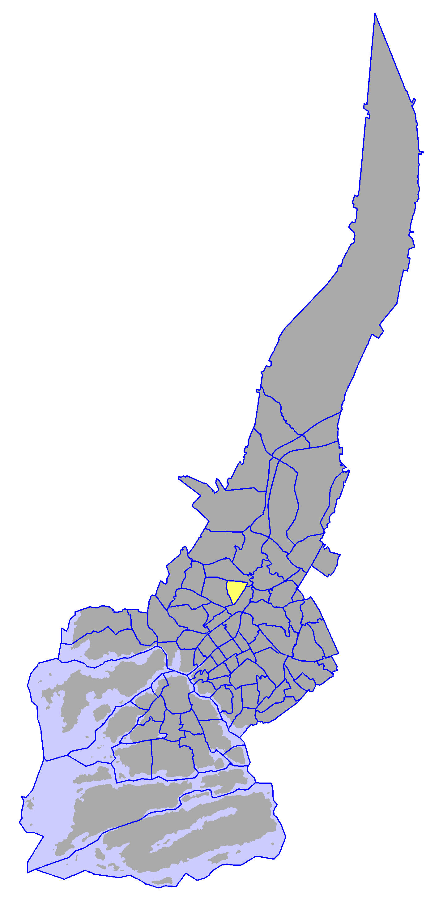 District of Kastu, in Turku